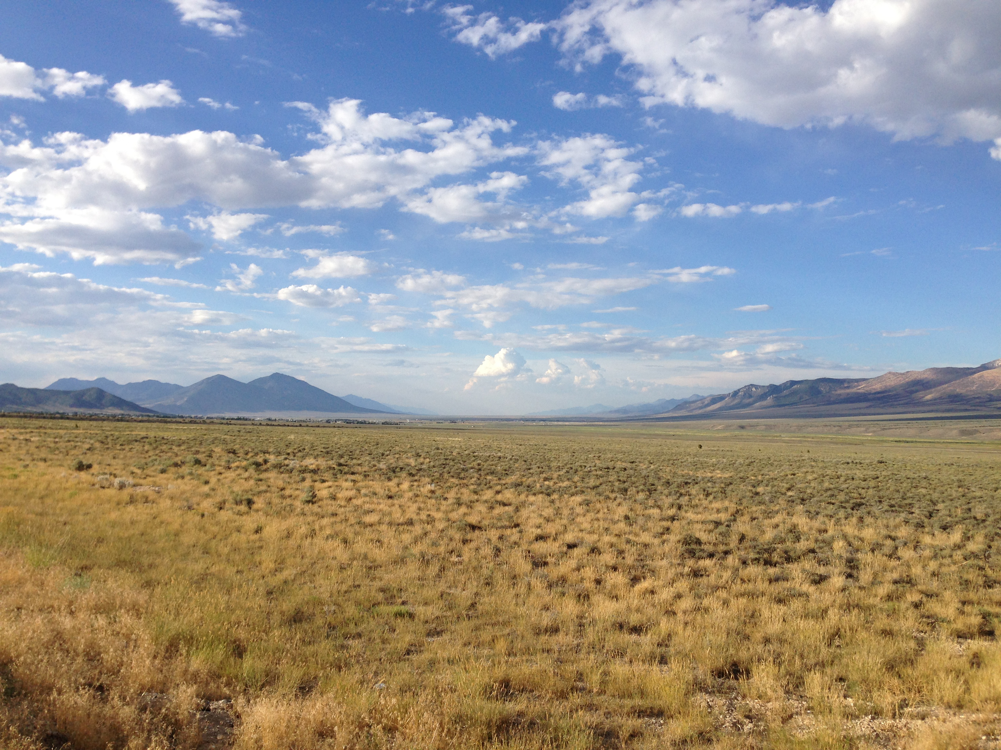 View north down Steptoe Valley from U.S. Routes 6, 50 and 93 about 40.8 miles east of the Nye County line near Ely, Nevada